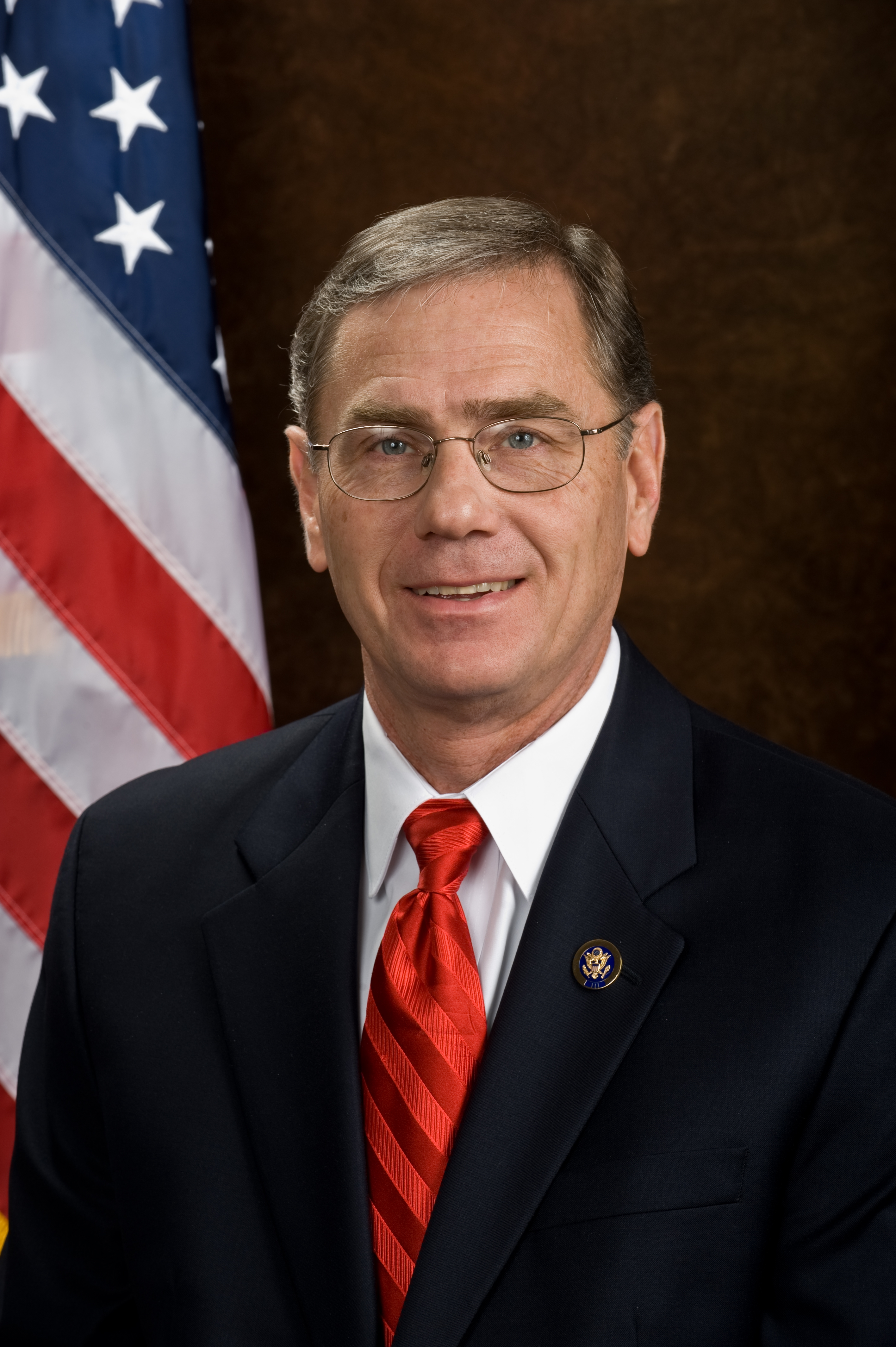 Blaine Luetkemeyer, member of the United States House of Representatives.